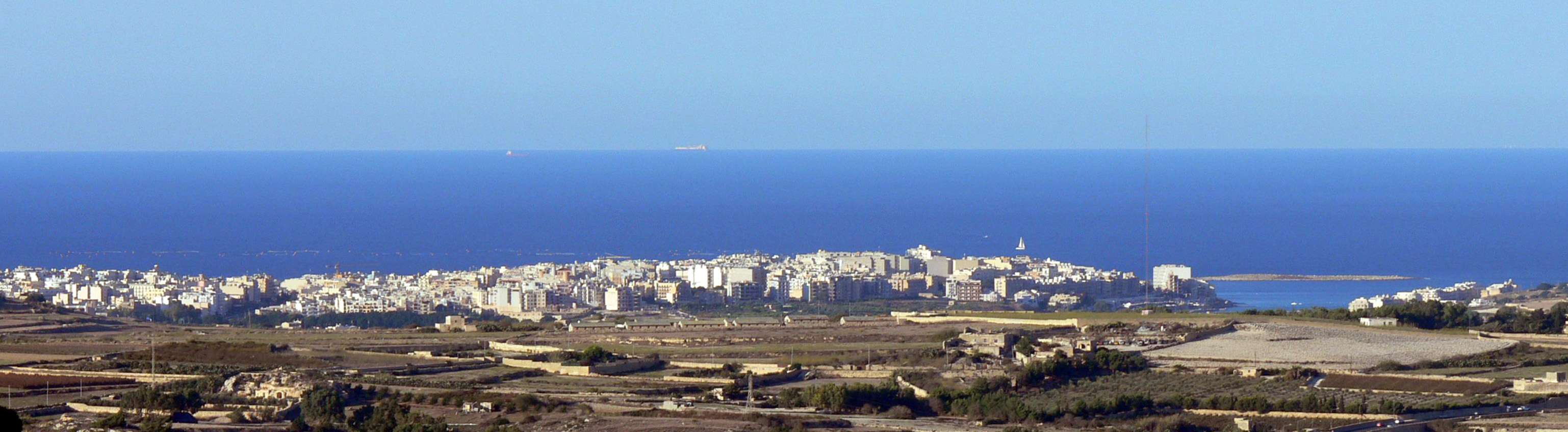 Panoramic view of Buġibba and Qawra with Salina Bay, Malta, seen from the walls of Mdina